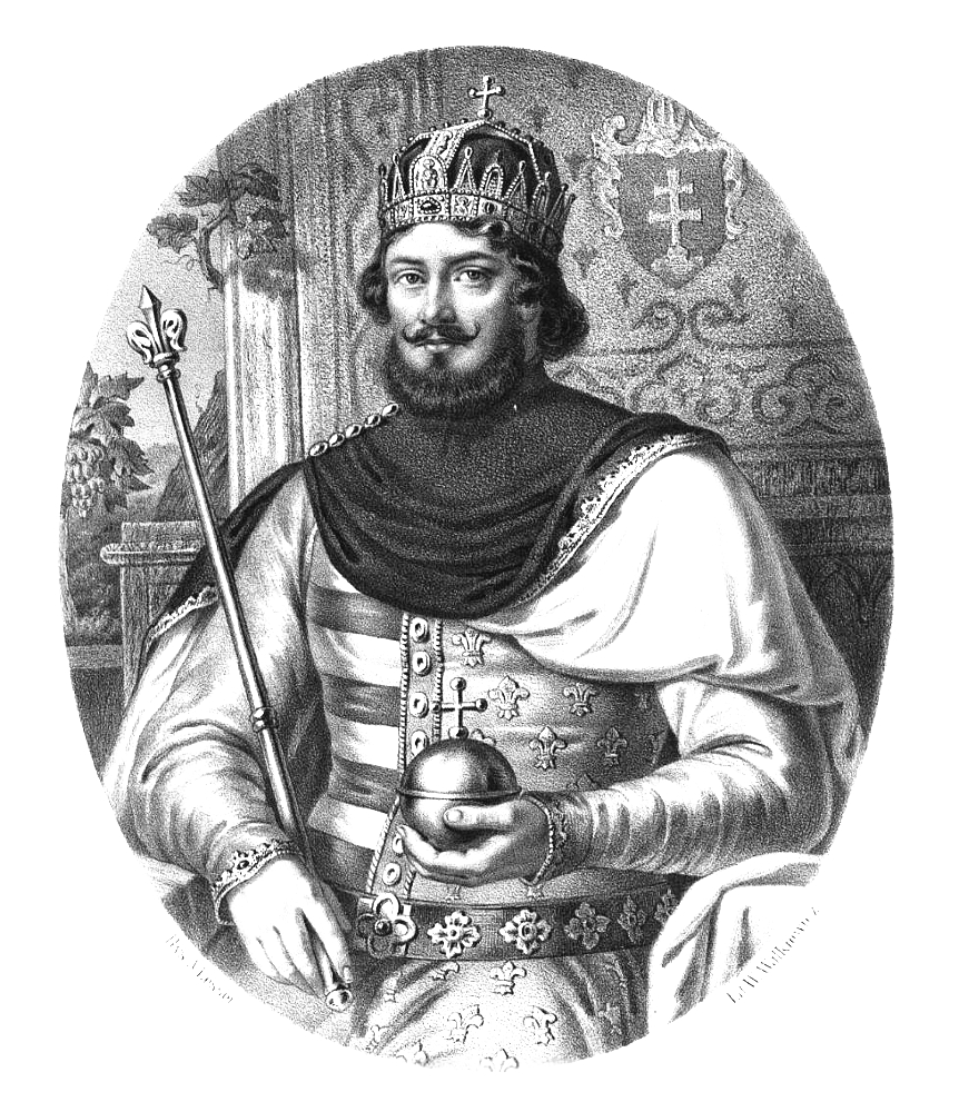 Ludwik d'Anjou, King of Poland and Hungary, picture from : Królowie Polscy, Spólka Wydawnicza, Lódz 1900', Druk : Kraków W.D. Anczyca i Spólka.